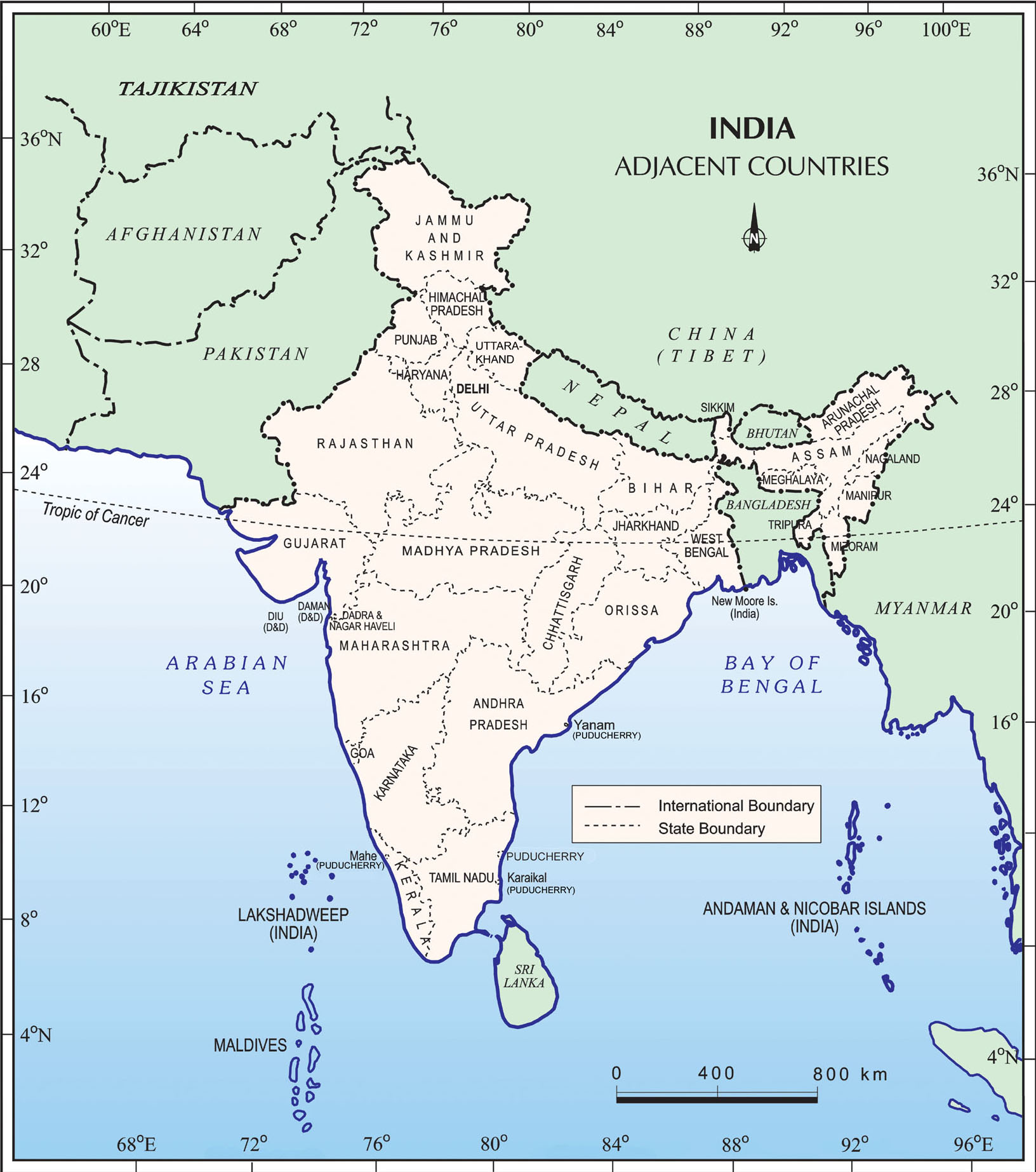 India and its neighbours